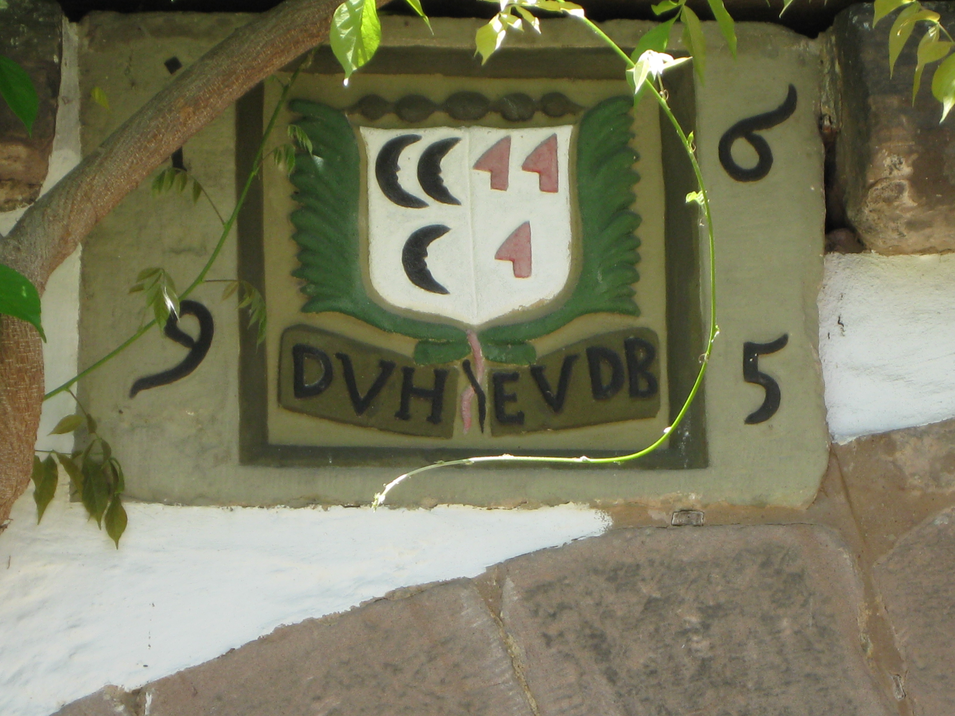 CoA, detail at the gate house of Besenhausen manor in Friedland municipality in southern Lower Saxony.